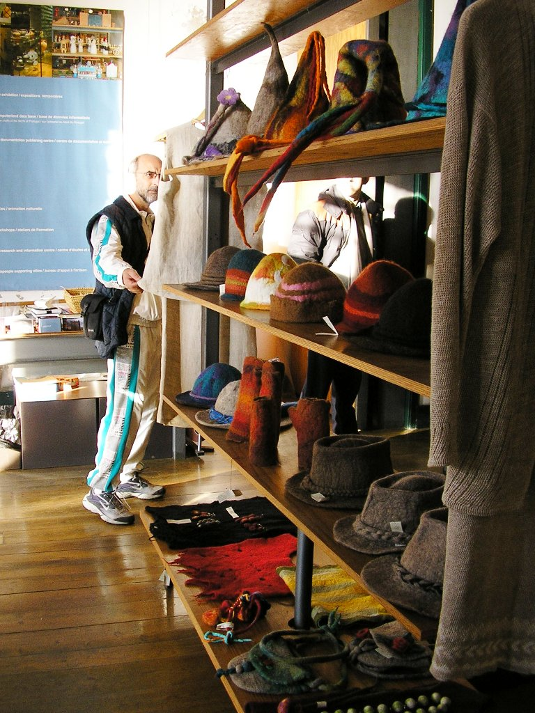 "CRAT" shop in Porto, Portugal. Author: Manuel de Sousa.